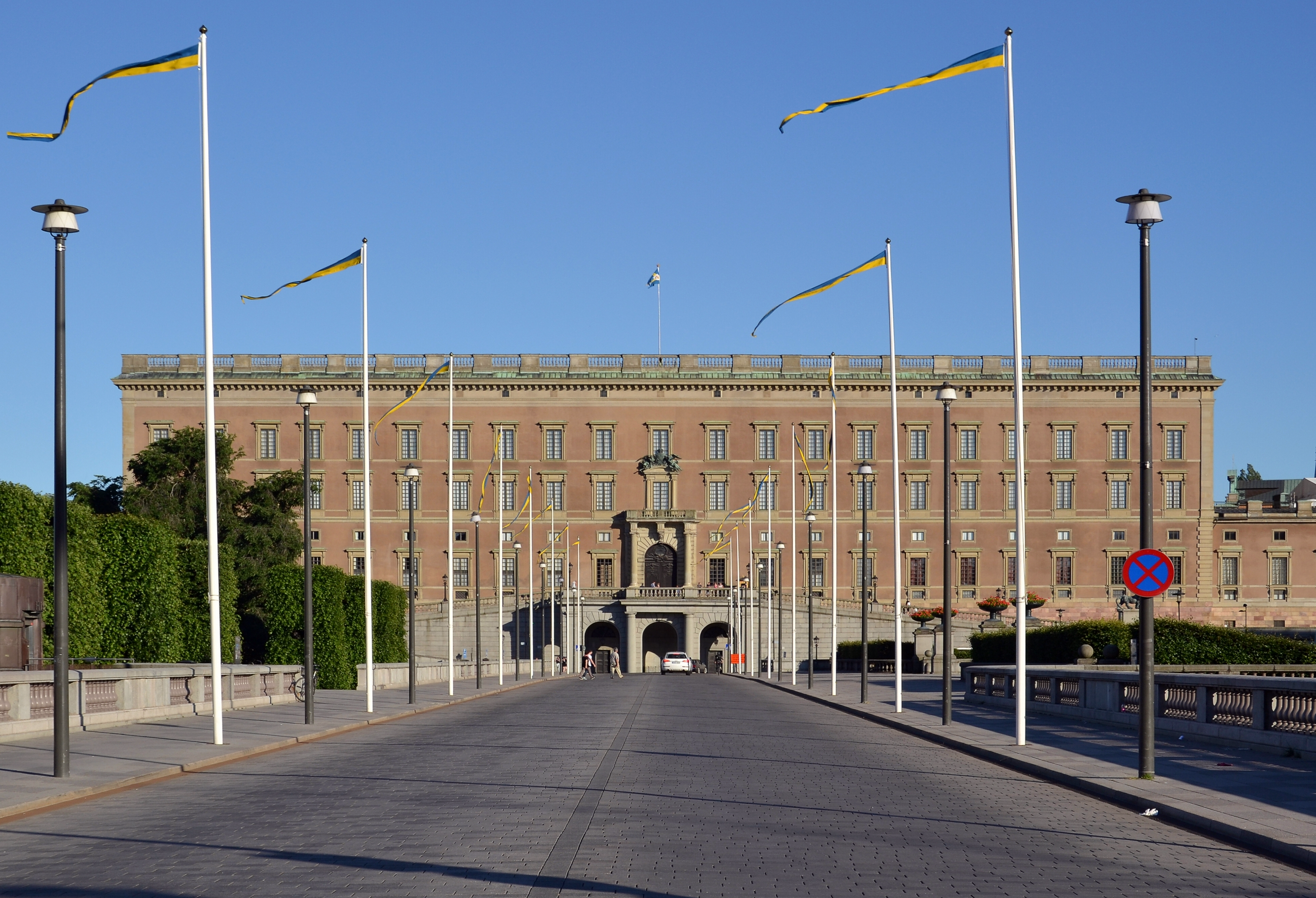 Royal Castle in Stockholm, Sweden